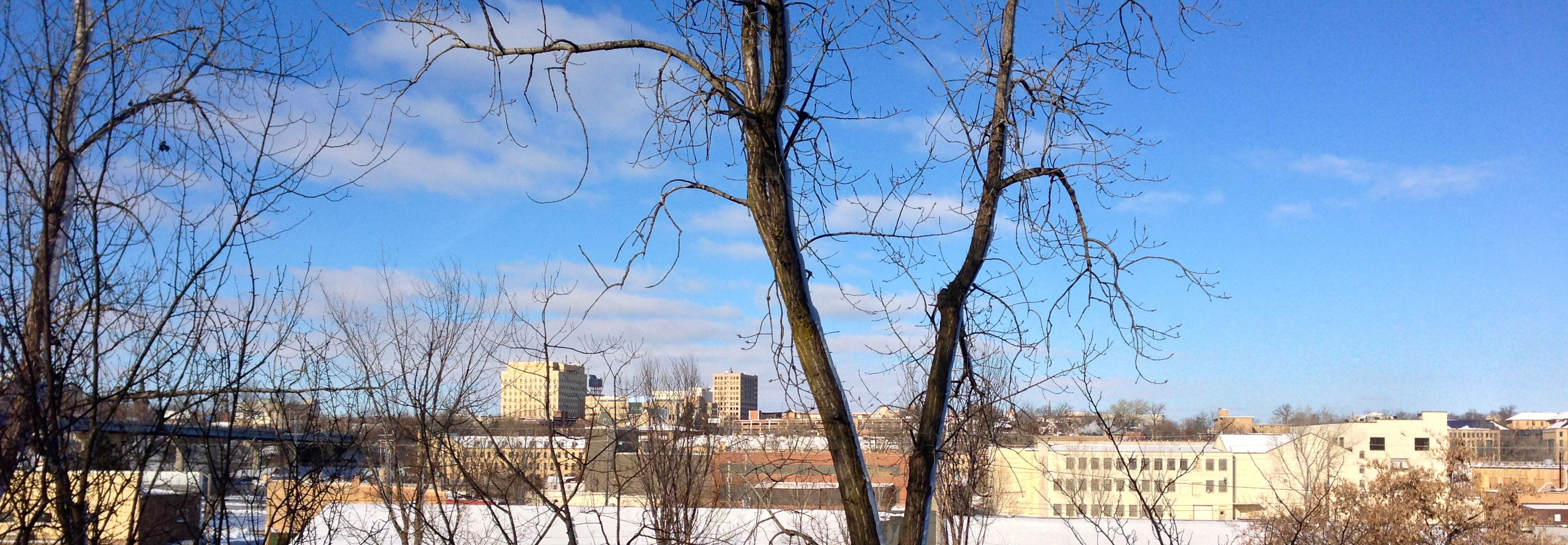 A wide shot of the downtown Appleton, Wisconsin skyline.